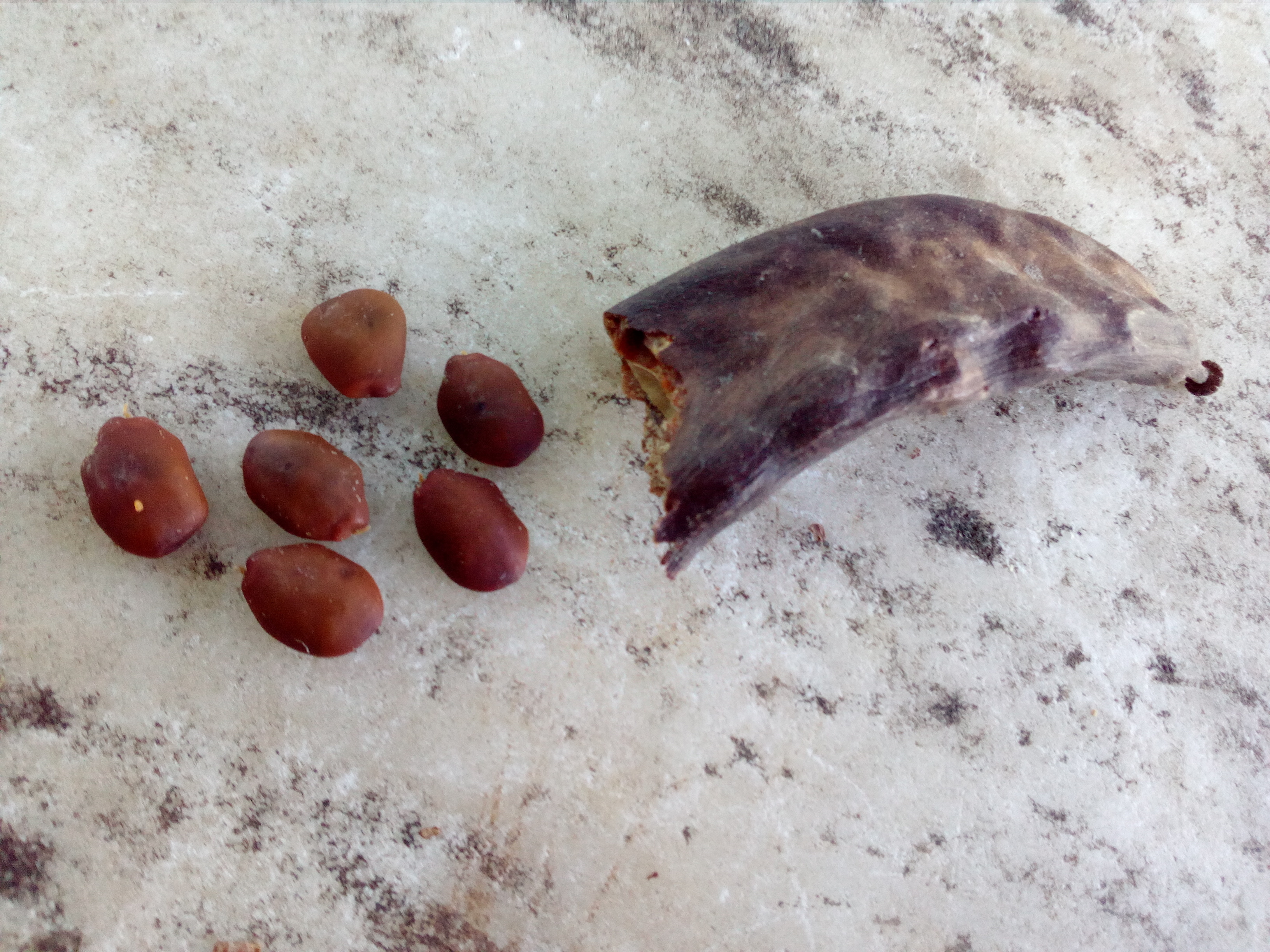 Ceratonia siliqua seeds and dry pod